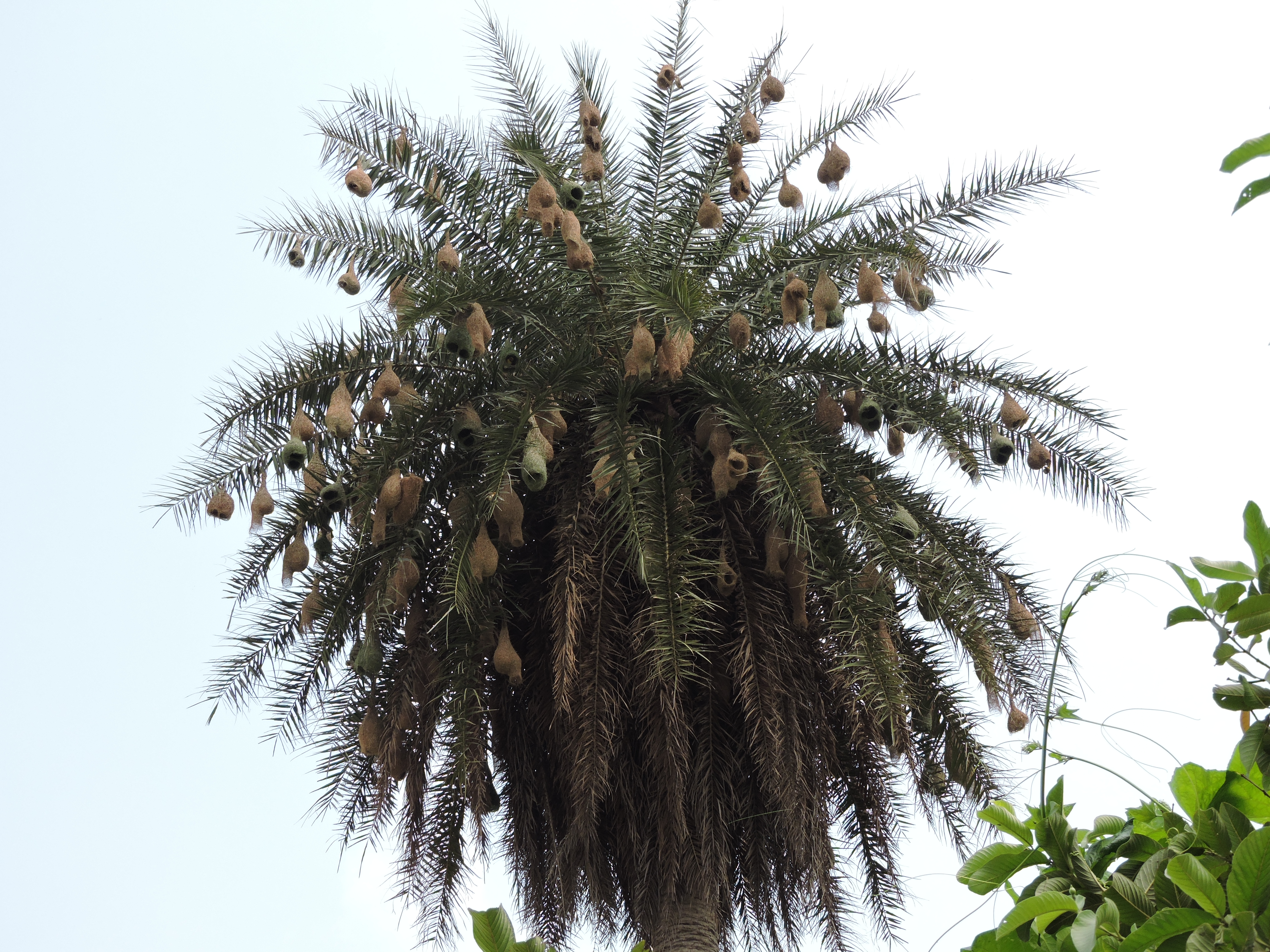 Date Palm ,Village Behlolpur,Punjab, India